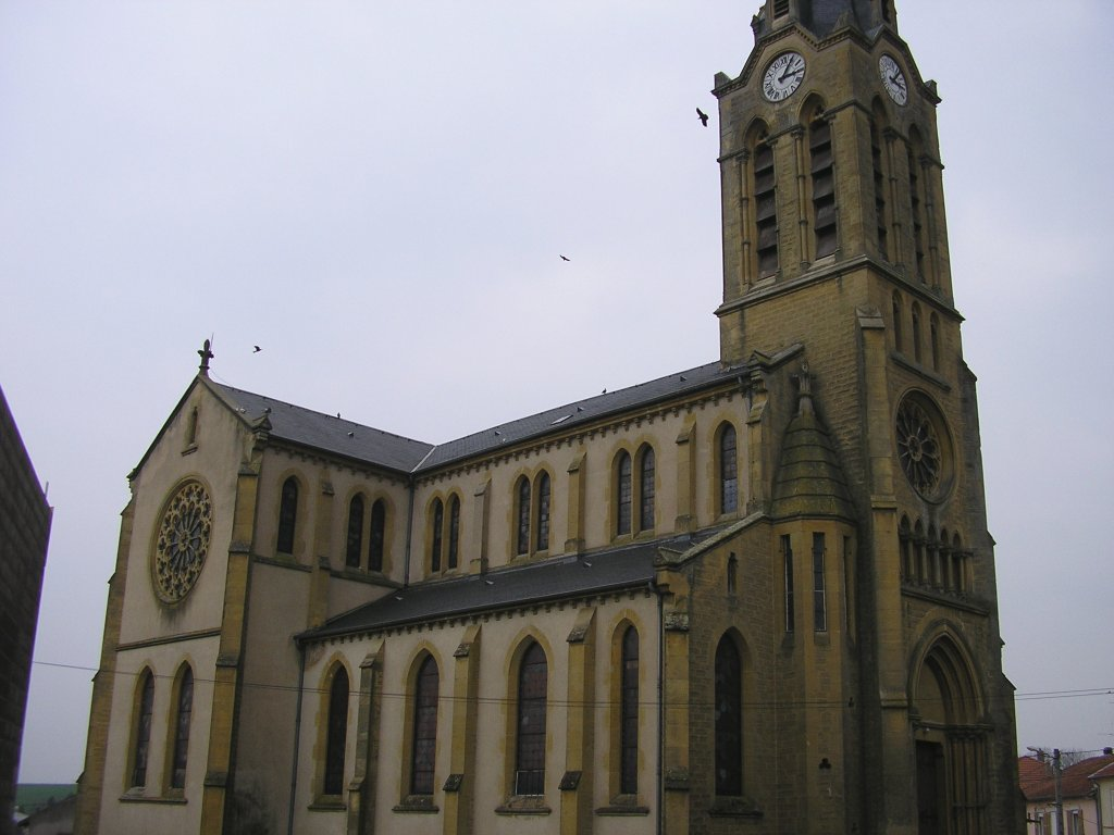 Photograph of the church of Béchy (a French town in Moselle)